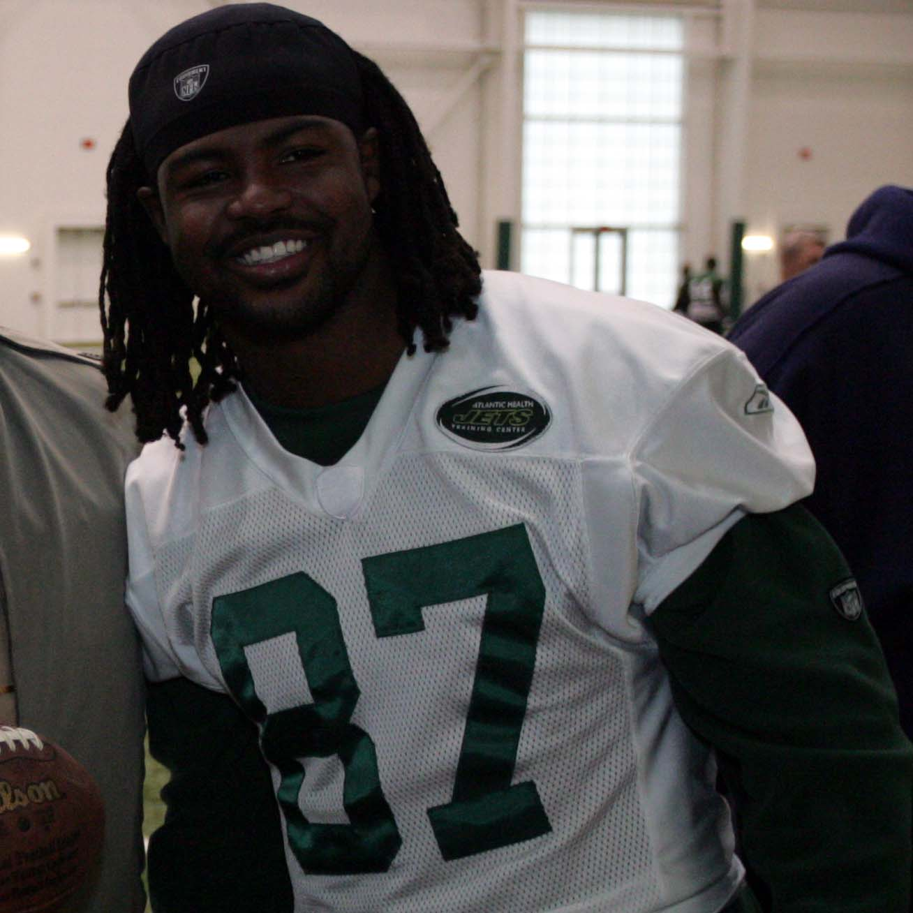 David Clowney of the New York Jets during the team's visit of the Marine Corps' recruiting station in Florham Park, NJ. (Official Marine Corps photo by Sgt. Randall A. Clinton) This file has been extracted from another file: Braylon Edwards David Clowney.jpg